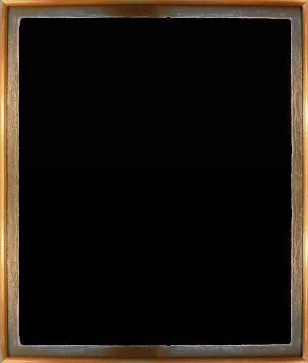 Alphonse Allais (1883) Carre blanc (reconstruction) «De negres dans une cave, pendant la nuit» (reconstruction fe 2009)